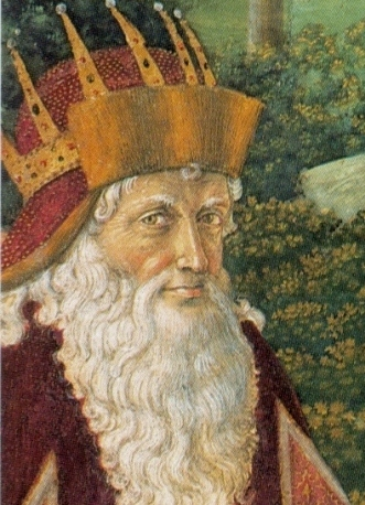 Joseph, Patriarch of Constantinople. Detail from the fresco by Benozzo Gozzoli, in the "Cappella dei Magi", at Palazzo Medici Riccardi in Florence, Italy.